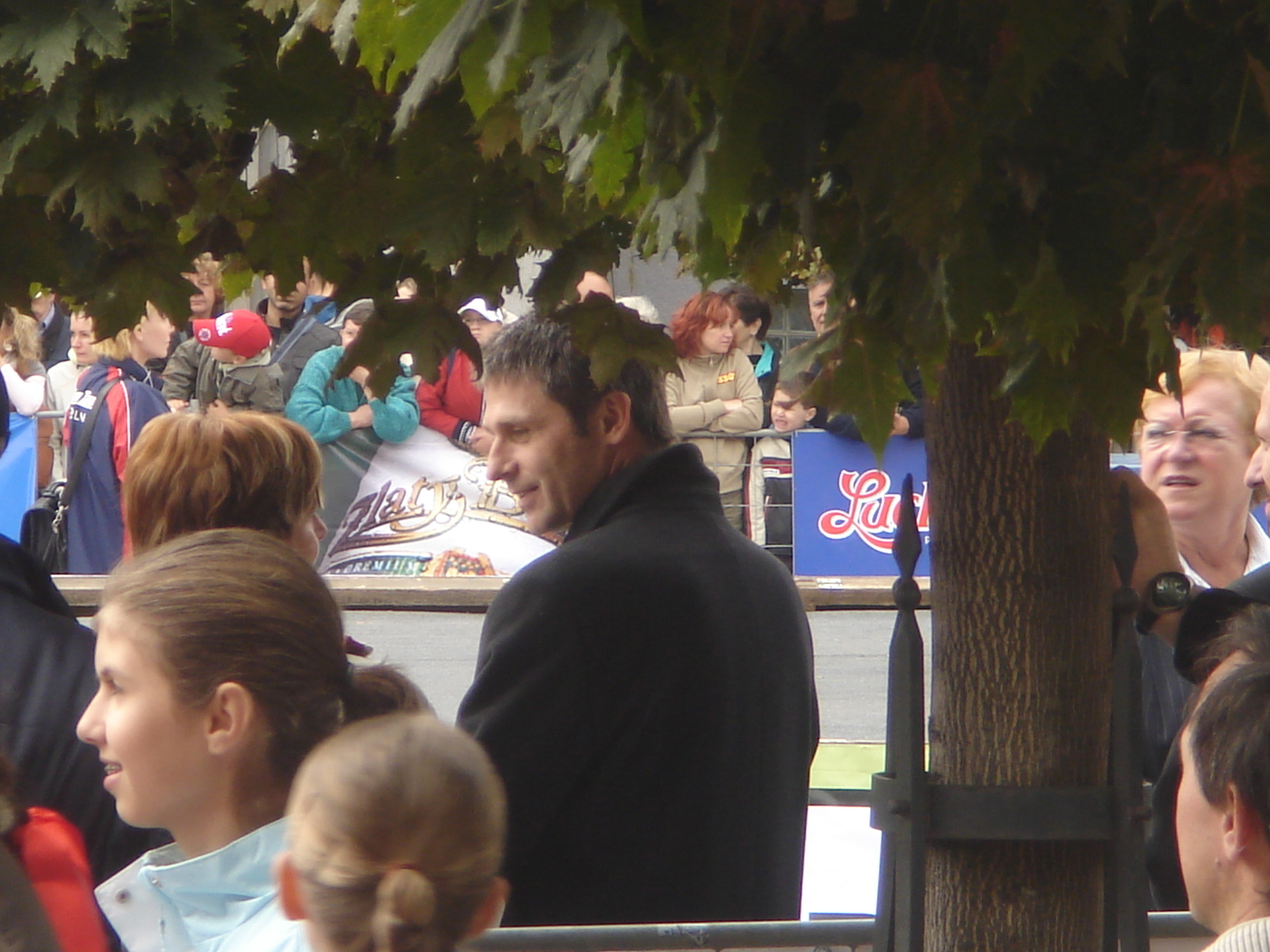 Triple gold olympic champion Jan Železný on the 84th International Peace Marathon in Kosice, Slovakia